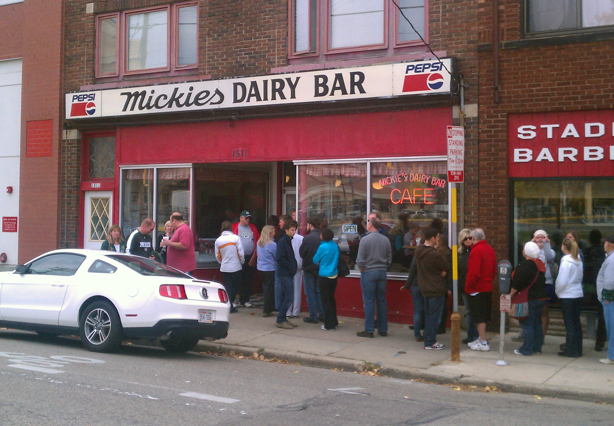 Mickies Dairy Bar, in Madison, Wisconsin, on an autumn Sunday morning.